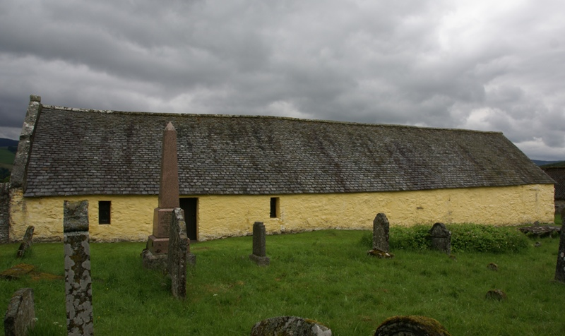 St Mary's Church, Grandtully, Perth and Kinross, Scotland